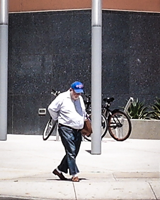 A photograph of the ordinary man